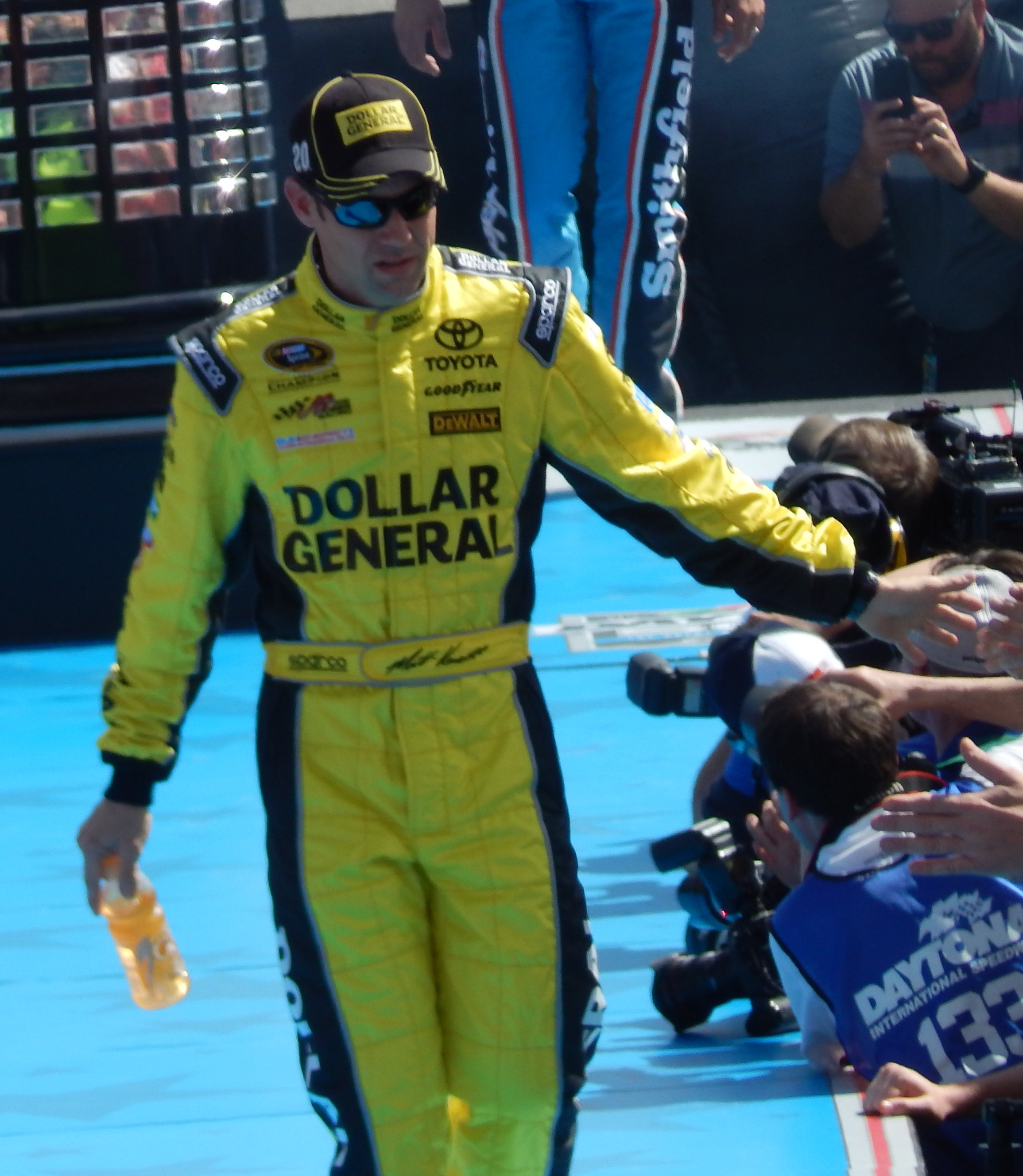 Matt Kenseth being introduced at Daytona International Speedway.